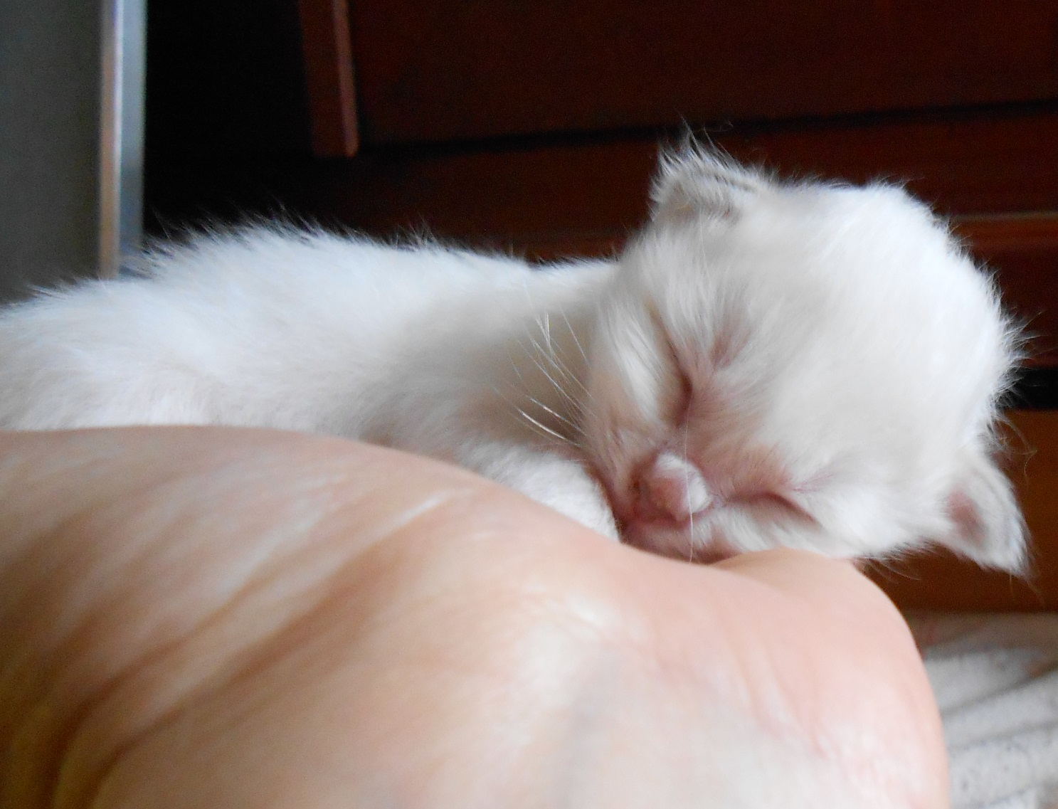 Birmana cholate-tabby-point di 10 giorni.